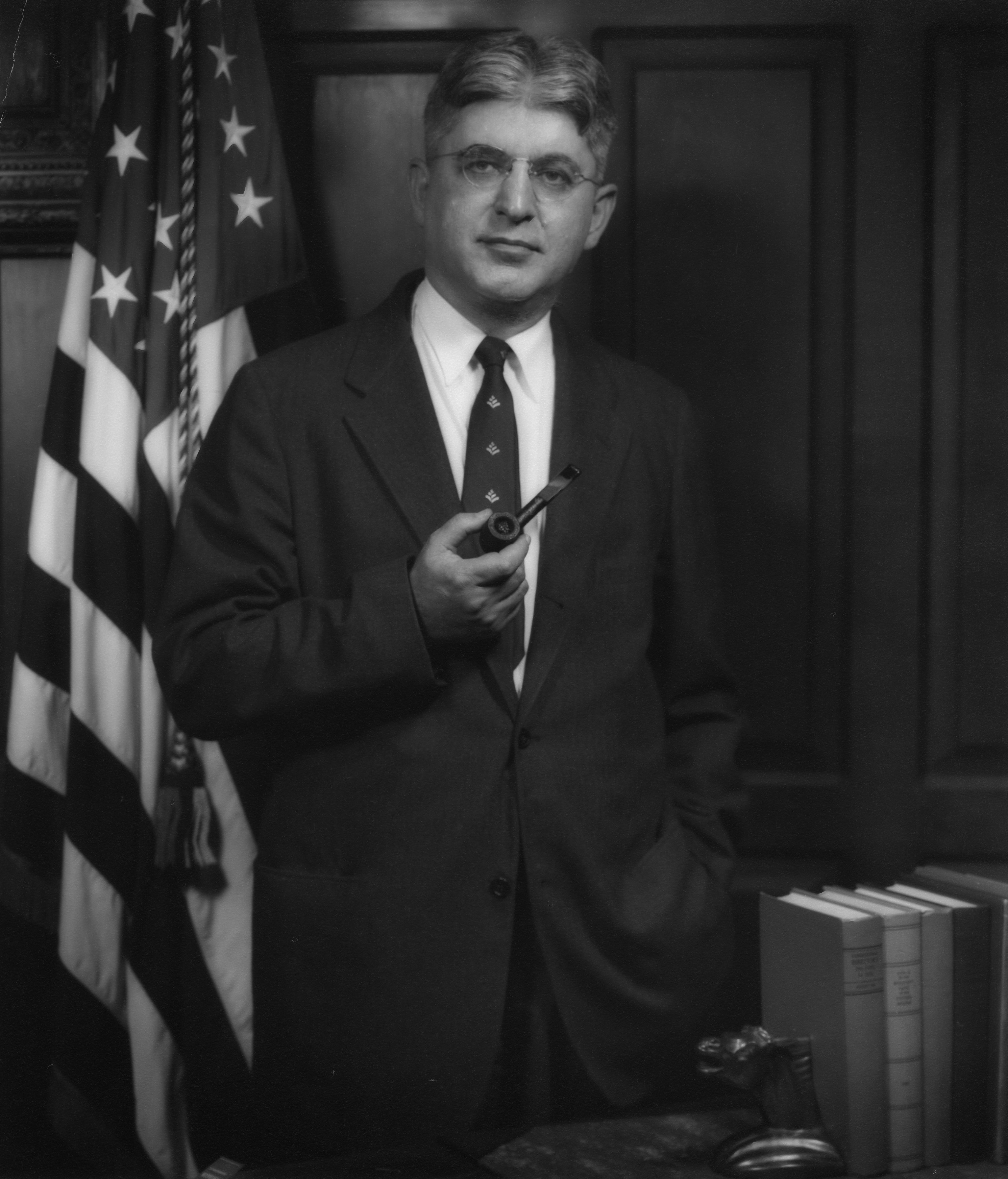 Printed on back of photo: "P-27799 Dr. Arthur F. Burns Economic Advisor to the President 22 October 1955 Oscar Porter Please Credit US Army Photograph The Department of the Army has no objection to the publication of this photograph. Its use in commercial advertisement must be approved, along with copy and layout, by the Public Information Division, Office of the Chief of Information and Education, Department of the Army, the Pentagon, Washington, 25, D.C." Photo from Box 6, Arthur F. Burns Papers, David M. Rubenstein Rare Book & Manuscript Library, Duke University Arthur F. Burns